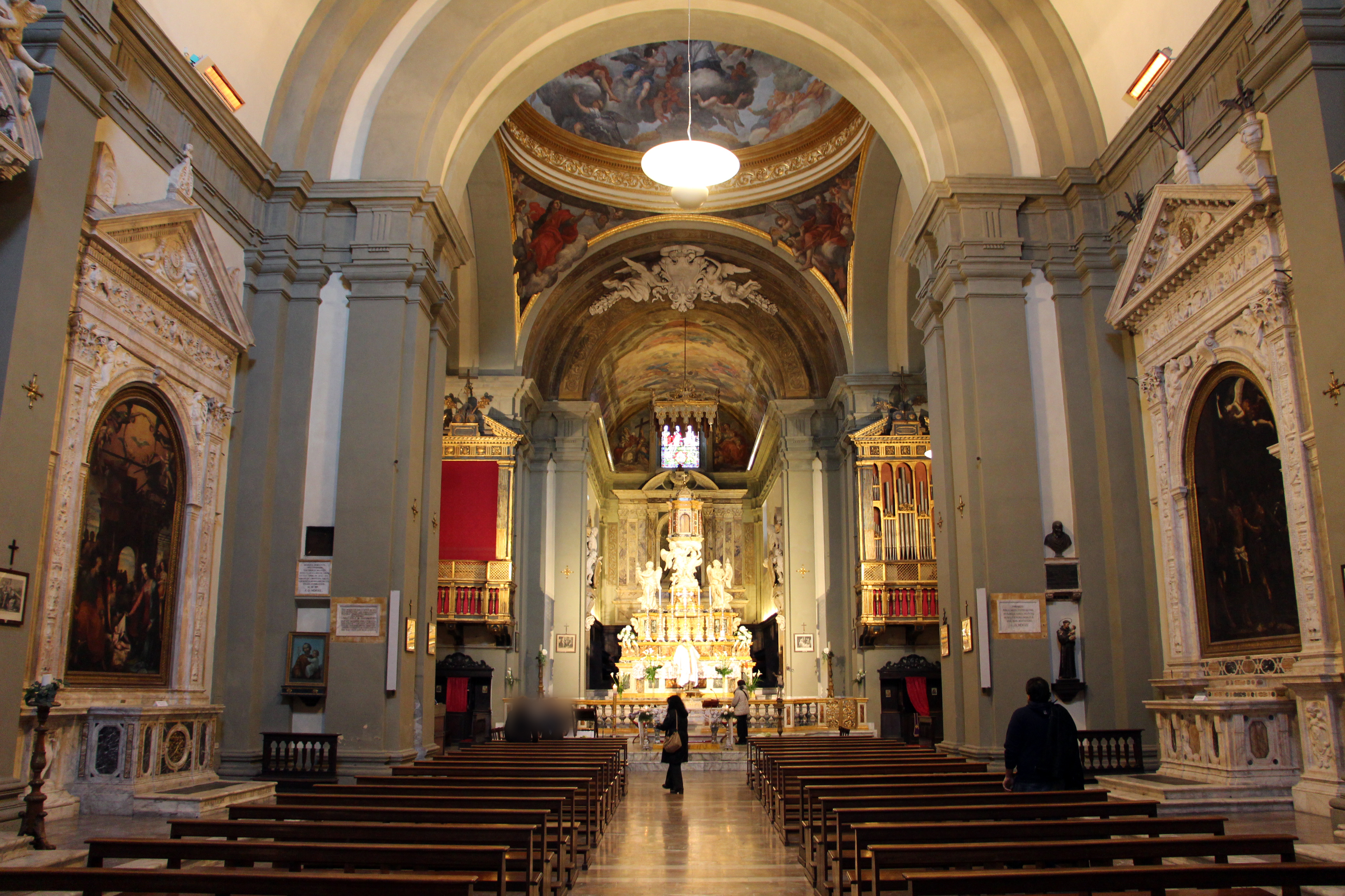 San Martino (Siena)